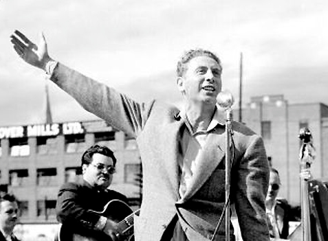 French singer Charles Trenet gives a show with a few musicians at a rodeo held in Delorimier Stadium in Montreal, Québec, Canada.